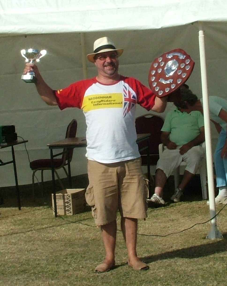 Ian Ashmeade holding the cup for the 40th world pea shooting competition and the Tyson shield named after the headmaster who started the comptetition 40 years ago.